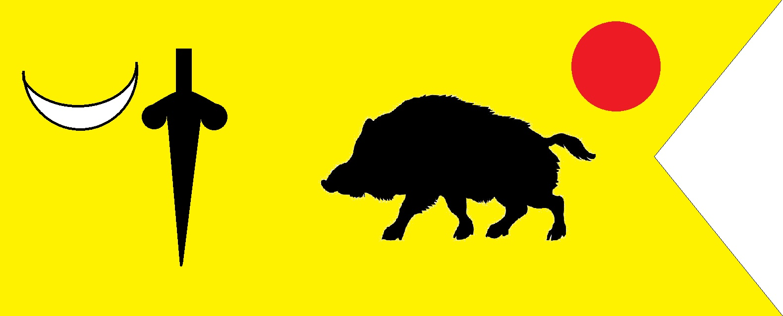 Flag of Vijayanagara Empire